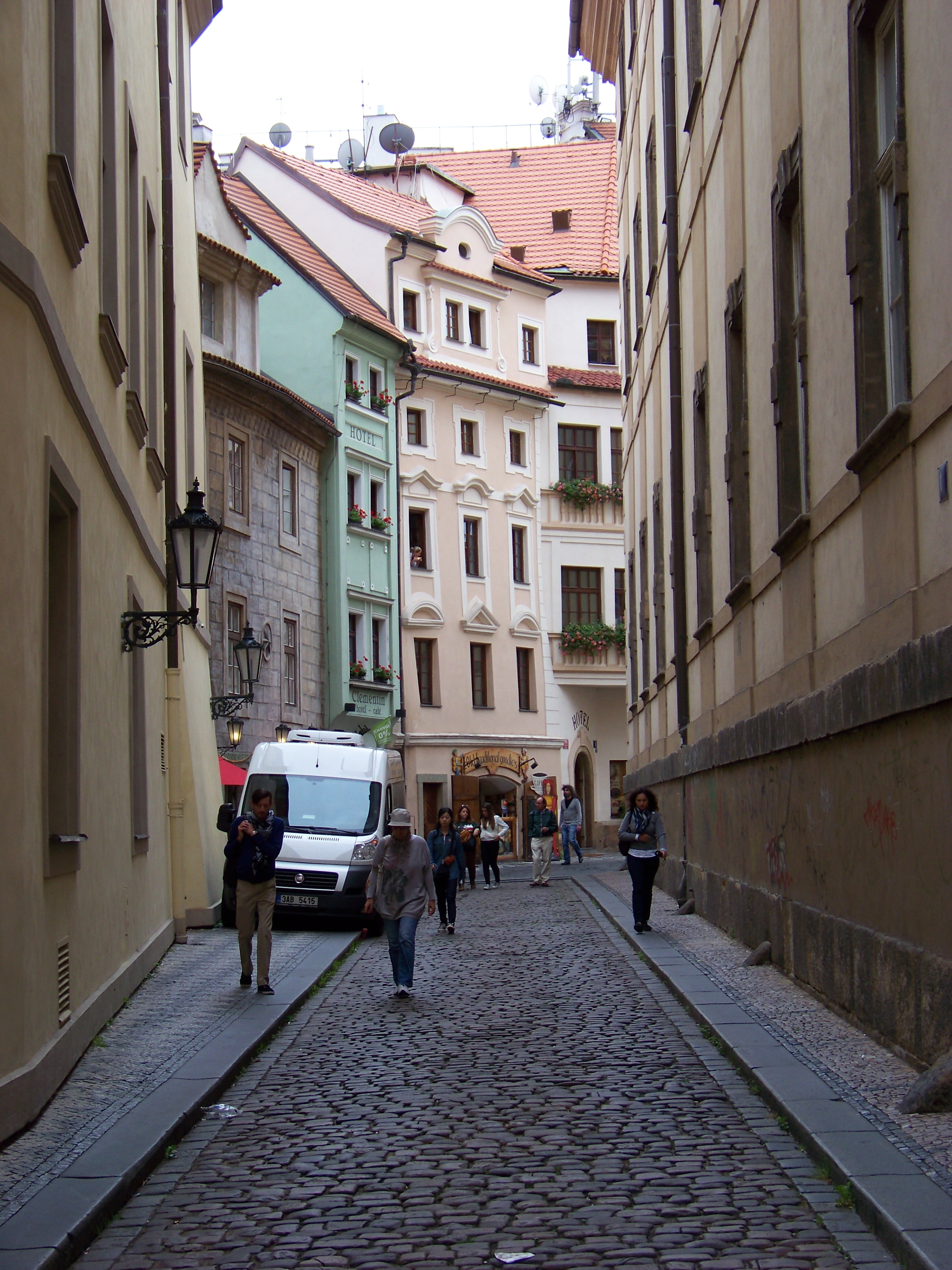 Prague-Old Town. Seminářská street. - OpenStreetMap(Info)